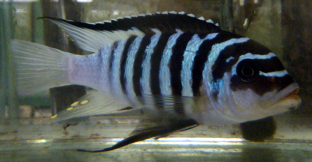 Pseudotropheus fainzilberi, wild caught male (Mphanga Rocks)